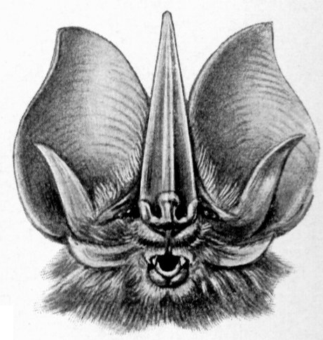 Tomes's Sword-nosed Bat